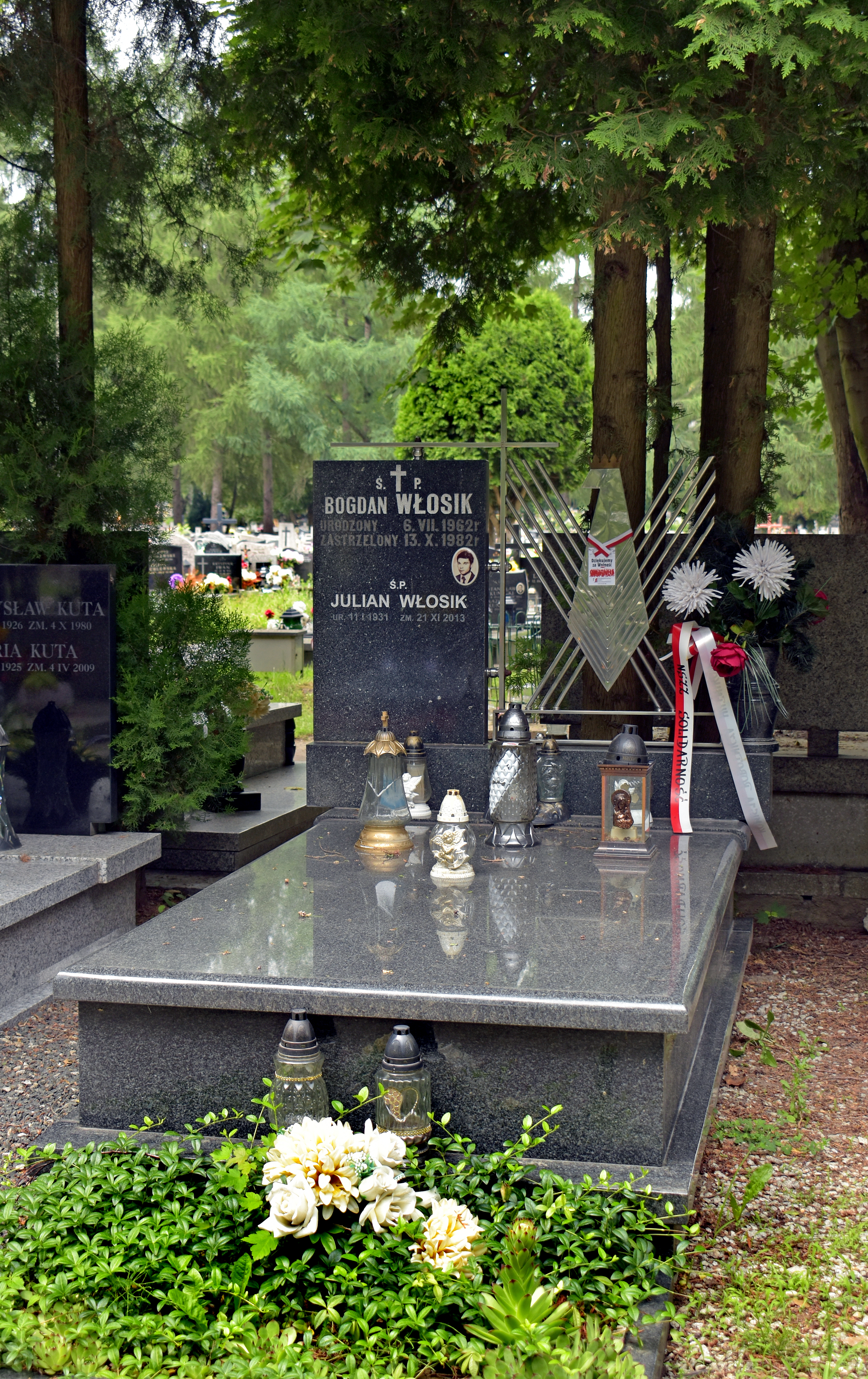 Grave of Bogdan Włosik, Grębałowski Cemetery, 1 Darwin street, Nowa Huta, Kraków, Poland